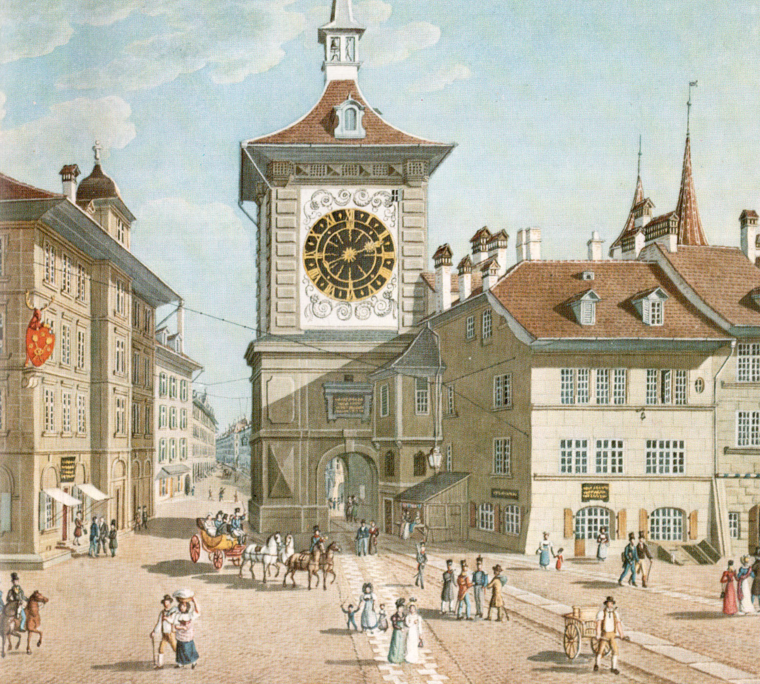 West facade of the Zytglogge tower in Bern, Switzerland, c. 1830.